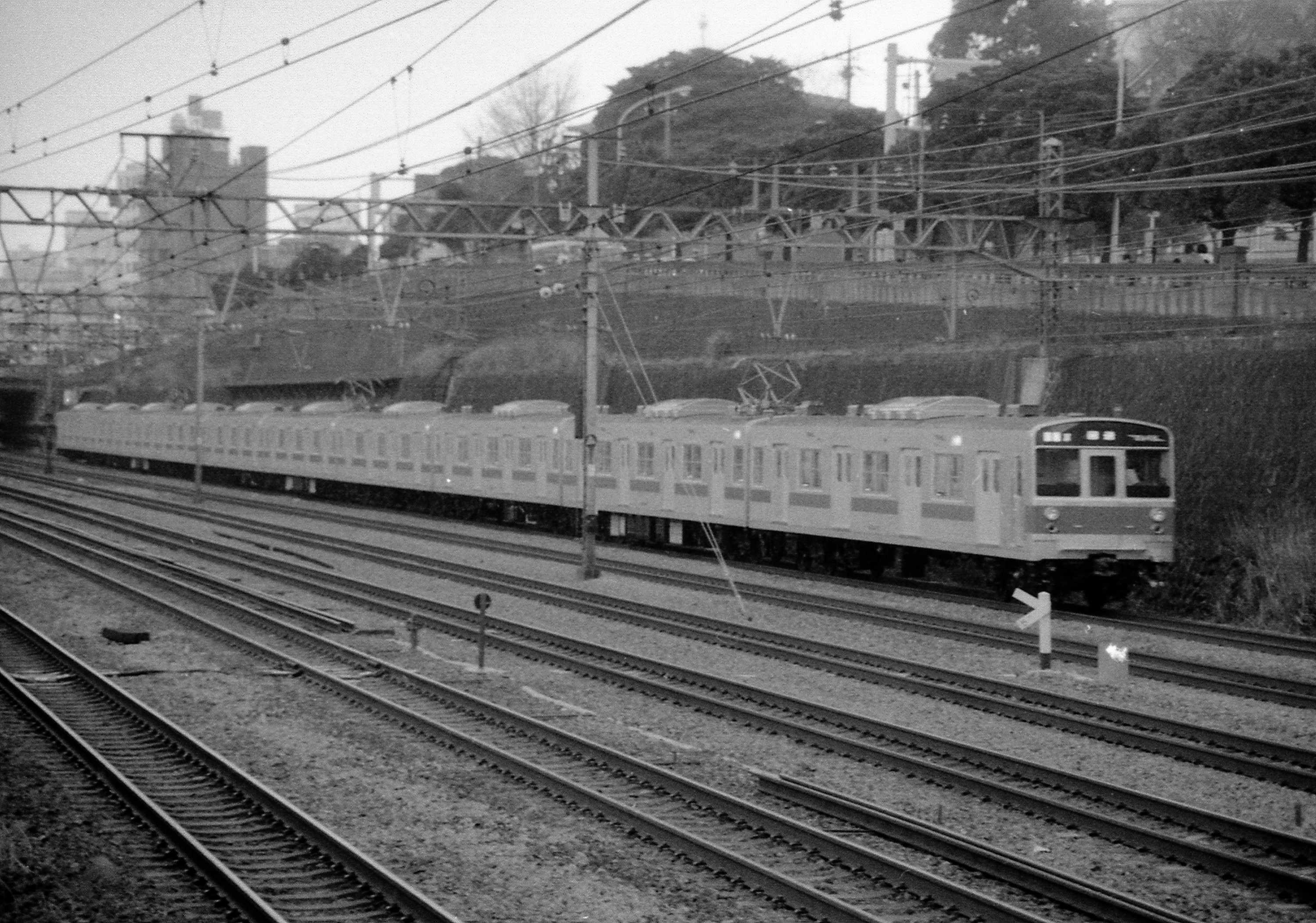 JNR203 -200 running Yokosuka line just after its building, near Higashi Kanagawa